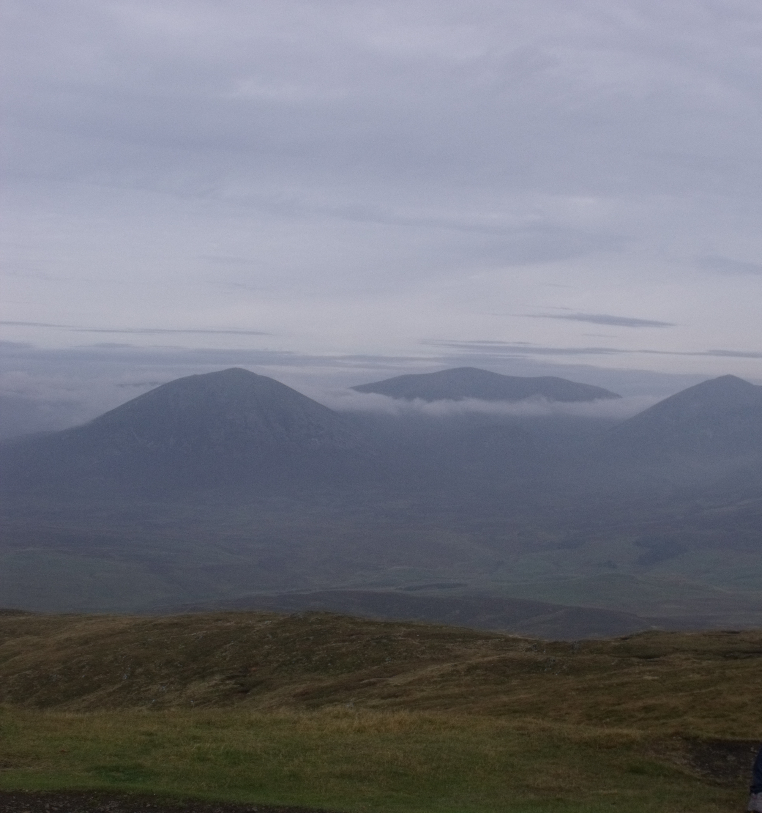 View from the top of Ben Vrackie